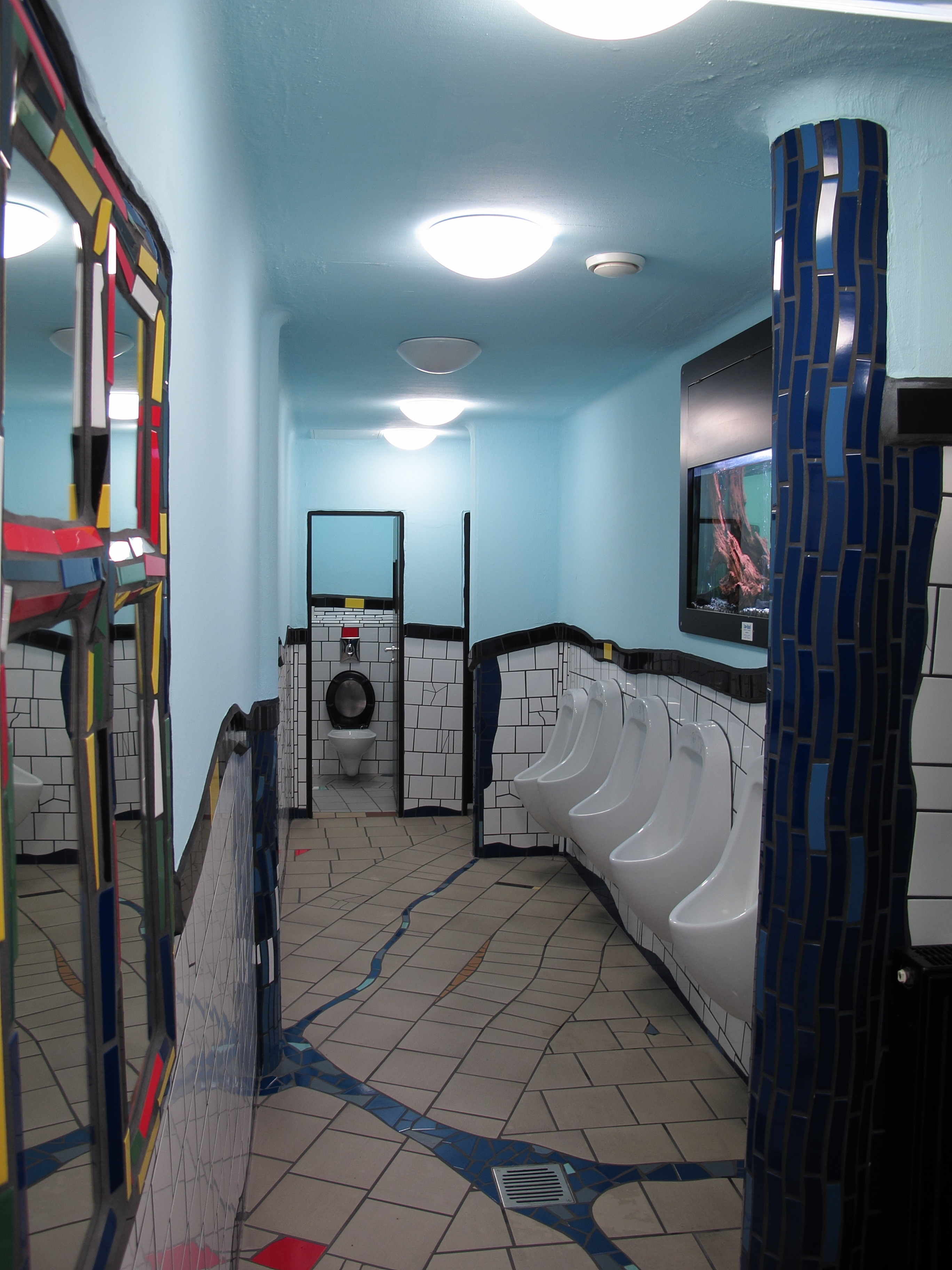 Hundertwasserhaus in Magdeburg in Saxony-Anhalt, Germany: The famous men's toilet